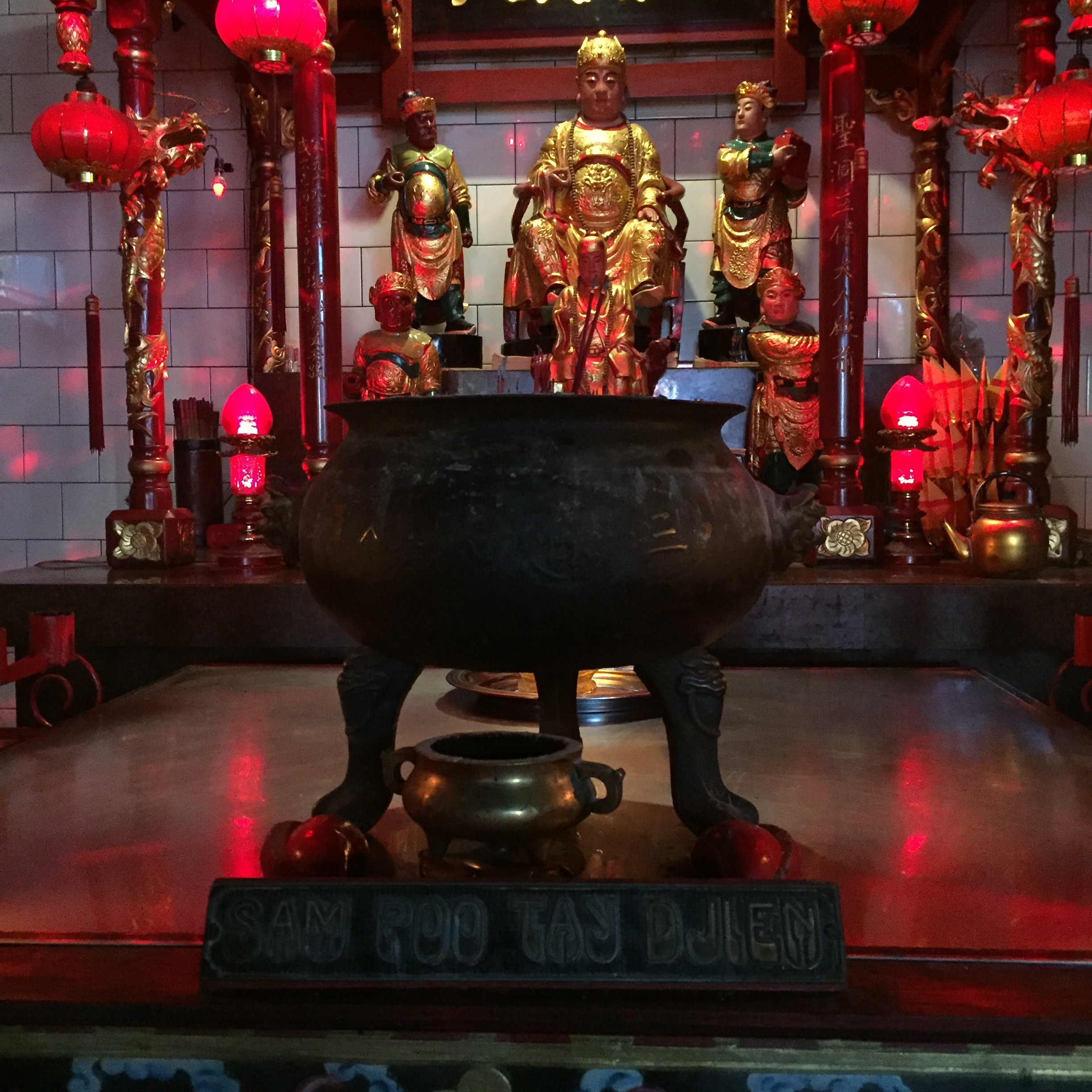 A holy place dedicated to Sam Poo Tay Djien inside of Kelenteng Kay Tak Sie in Semarang, Indonesia